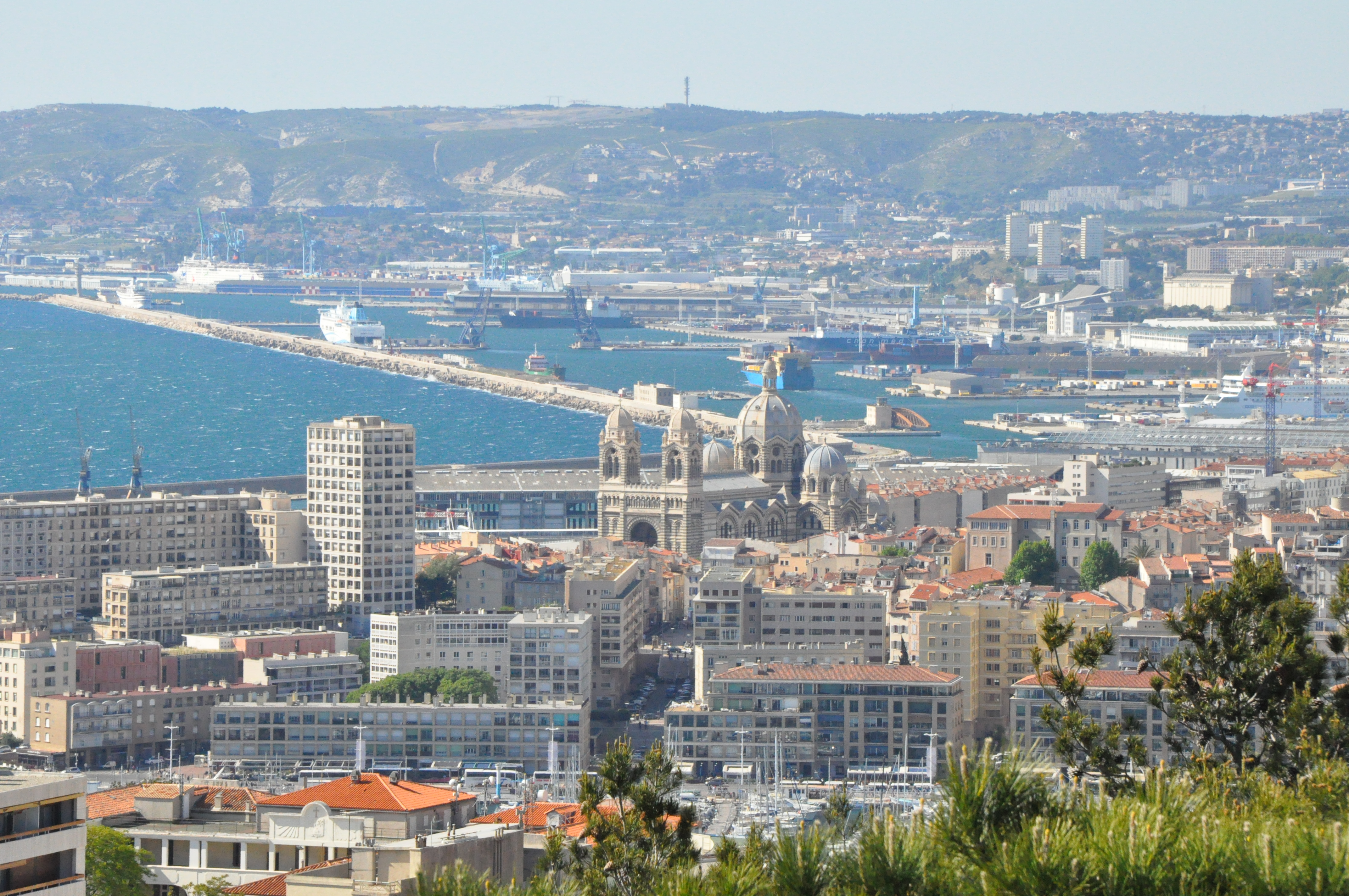 Marseille (France, Provence), view on the city and the ports, with Major cathedral